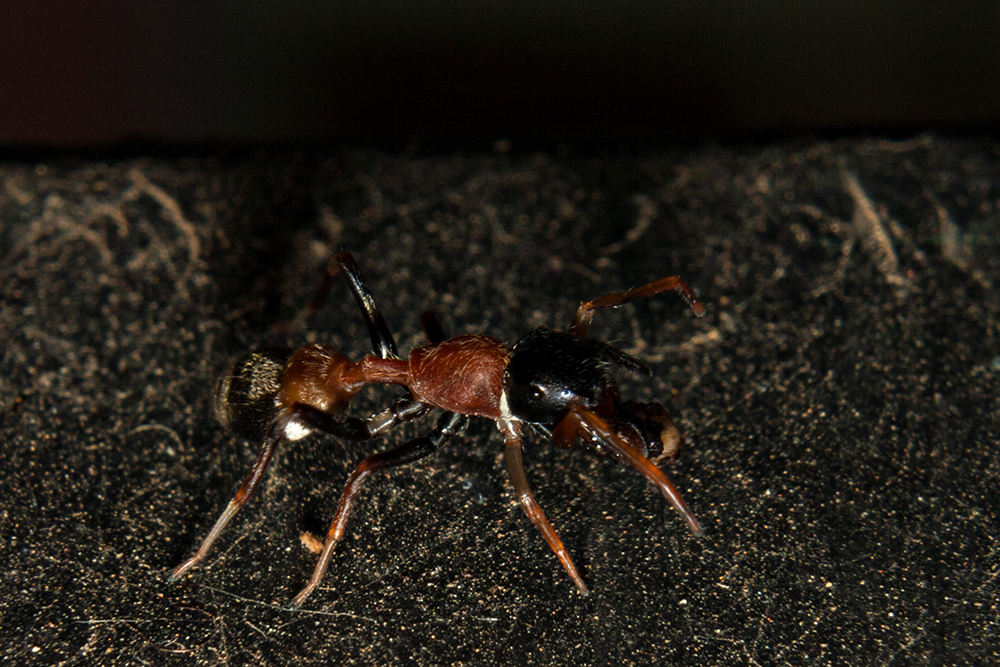 Ant mimicking spider.